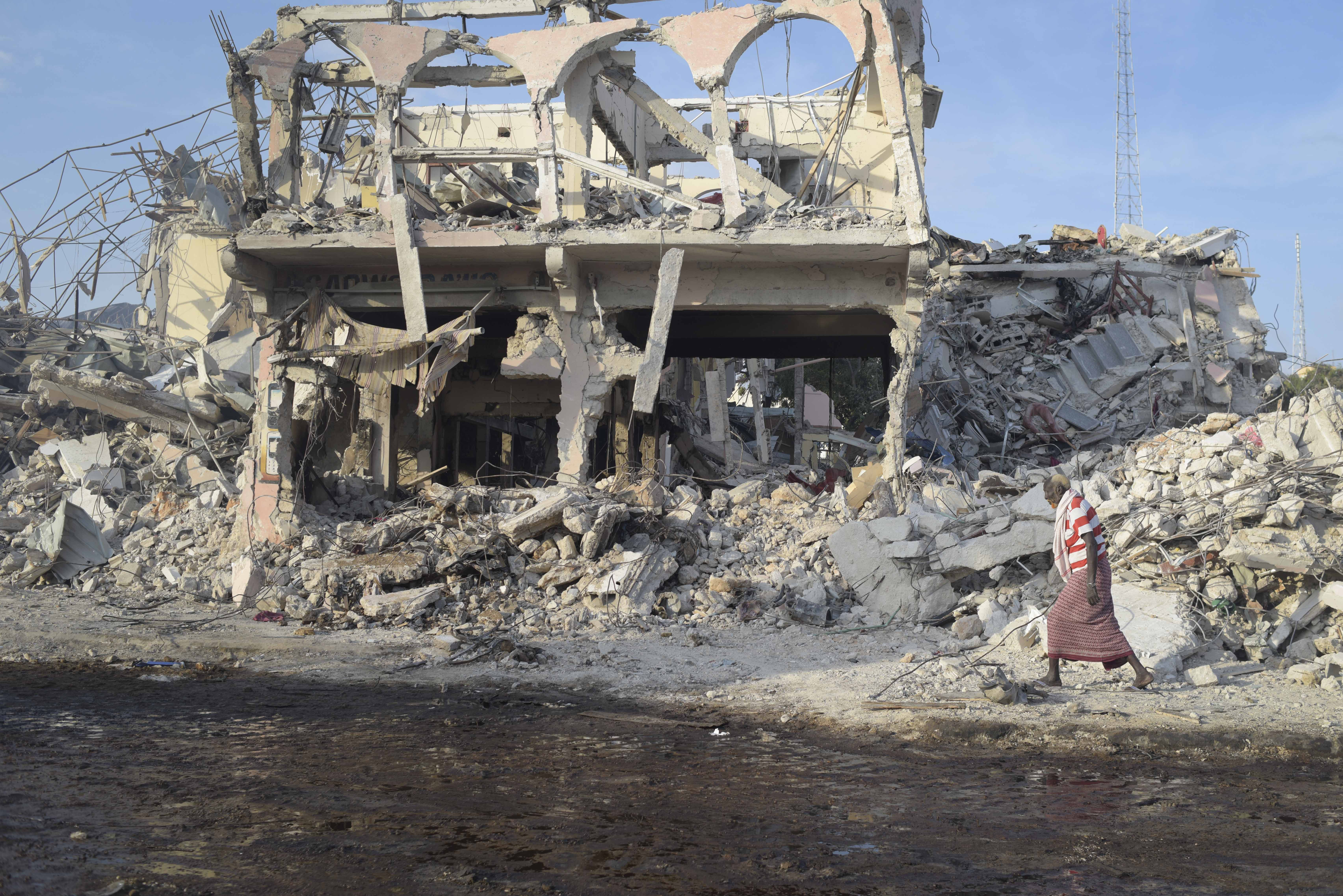 The African Union Mission in Somalia's Ugandan Contingent Commander, Brigadier General Kayanja Muhanga, visits the site of a VBIED attack conducted by the militant group al Shabaab in the Somali capital of Mogadishu on October 15, 2017